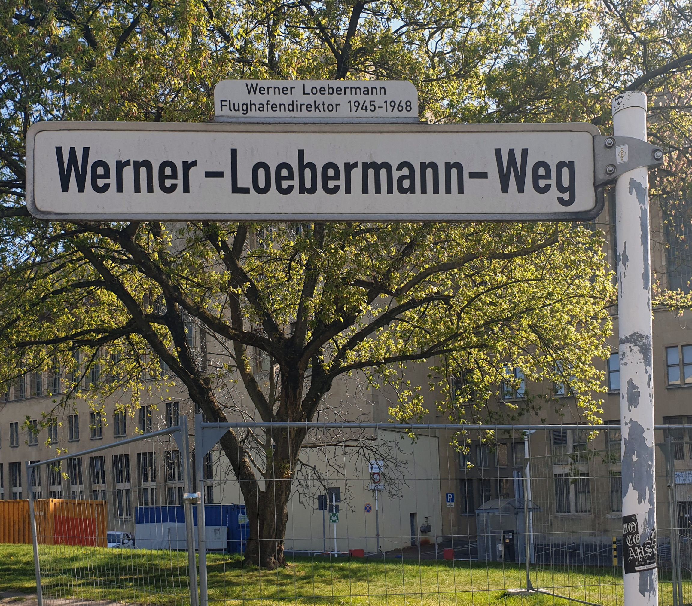 Memorial plaque, Werner Loebermann, Tempelhofer Damm 43, Berlin-Tempelhof, Deutschland